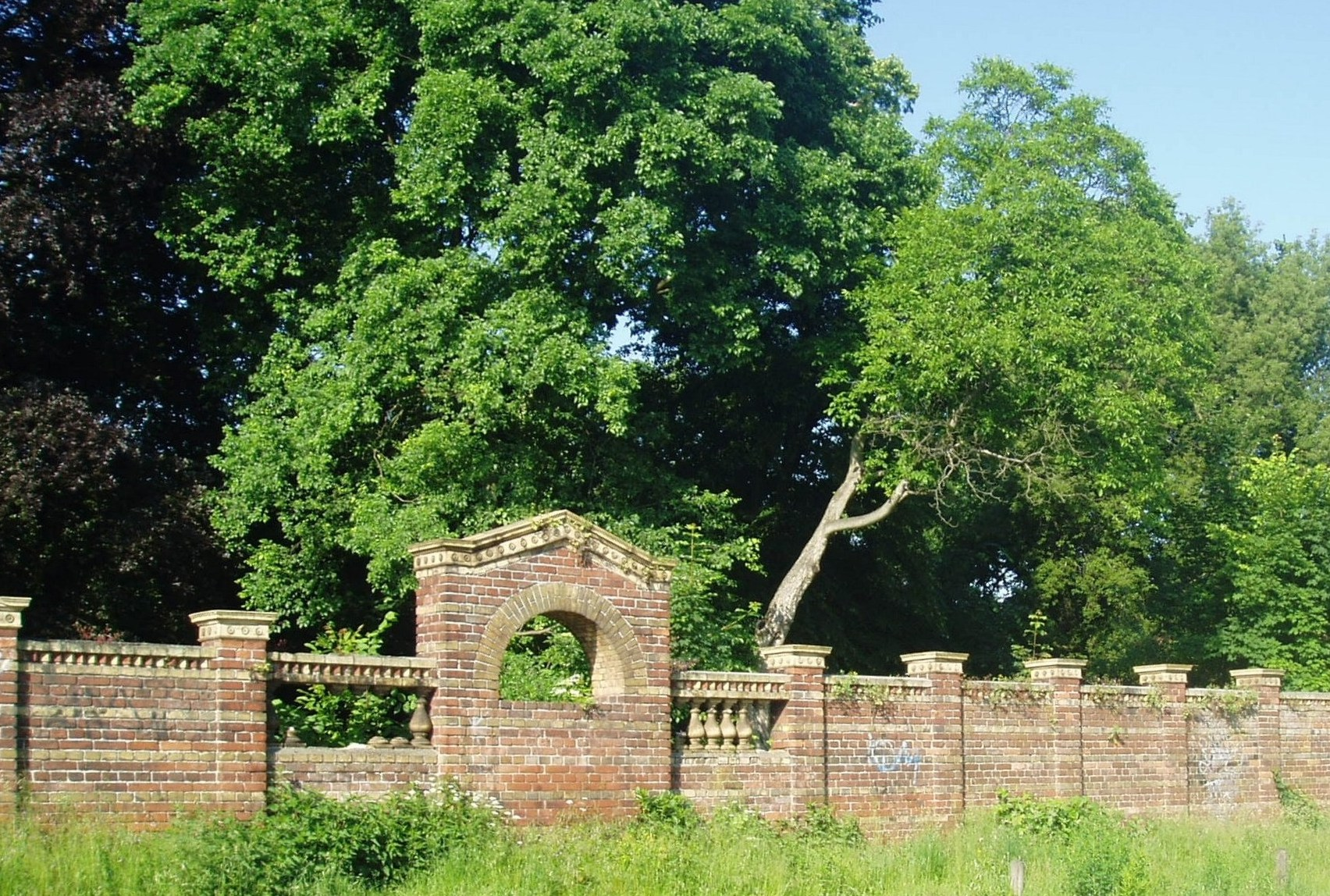 Wall at the Villa Schöningen, Potsdam, Germany